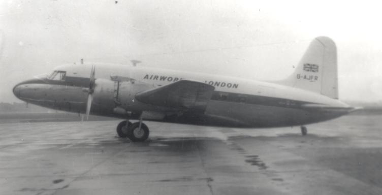 Vickers Viking 1B of Airwork Limited, London, at Manchester Airport